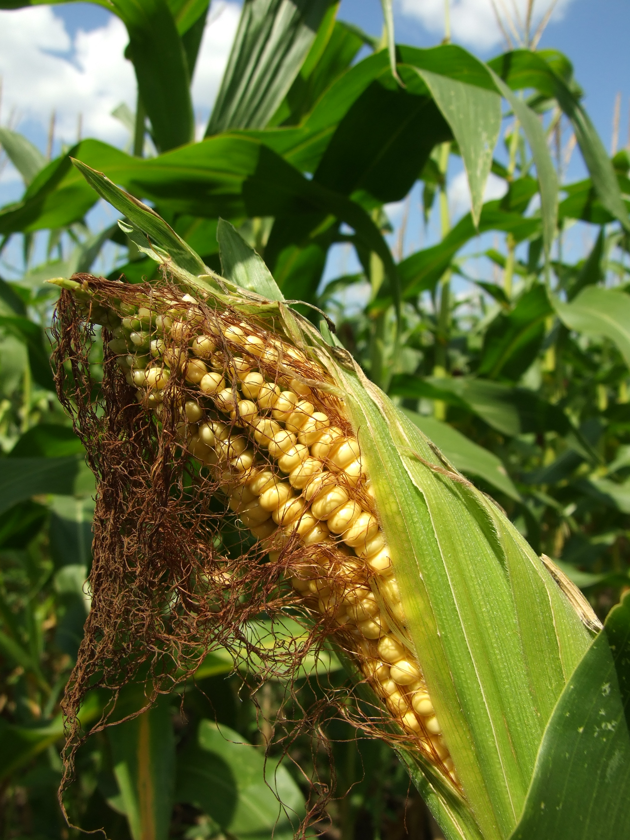 A corn near Kisoroszi on Szentendrei sziget island, Pest comitat, Hungary